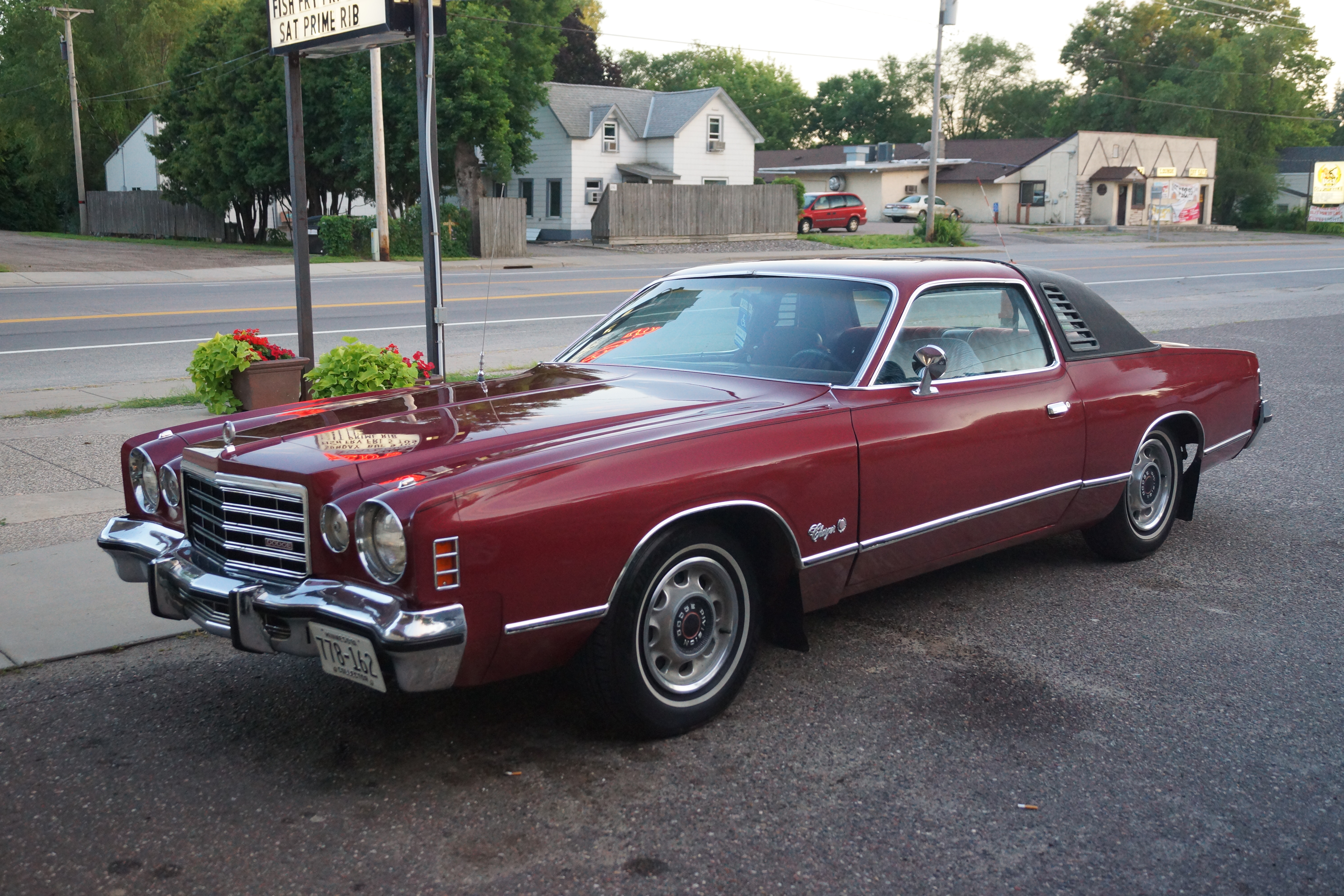 Click here for more car pictures at my Flickr site.